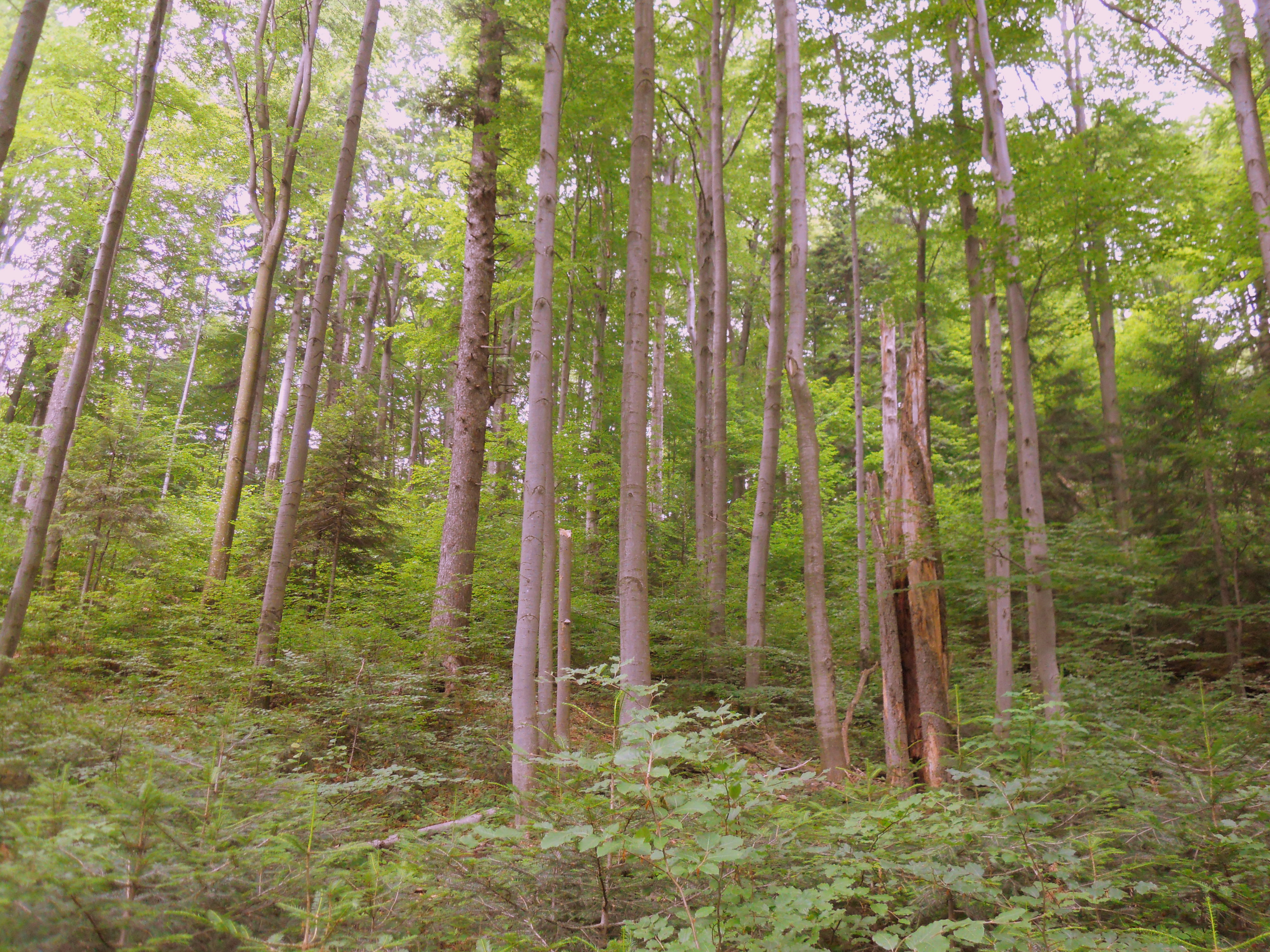 The beech virgin forest area within the Park